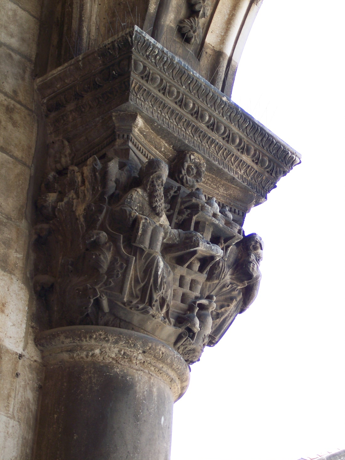 Sponza's palace (or Rector's palace) in Dubrovnik (Croatia)